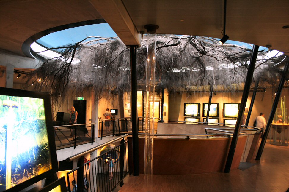 The root system of a 135 year old tree as preserved in the Museonder, a museum in Dutch National Park "De Hoge Veluwe".